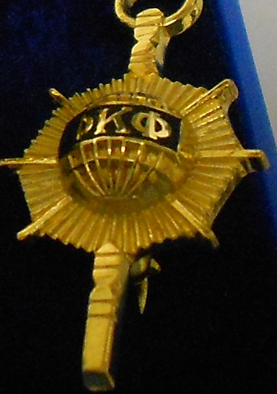 Official web site